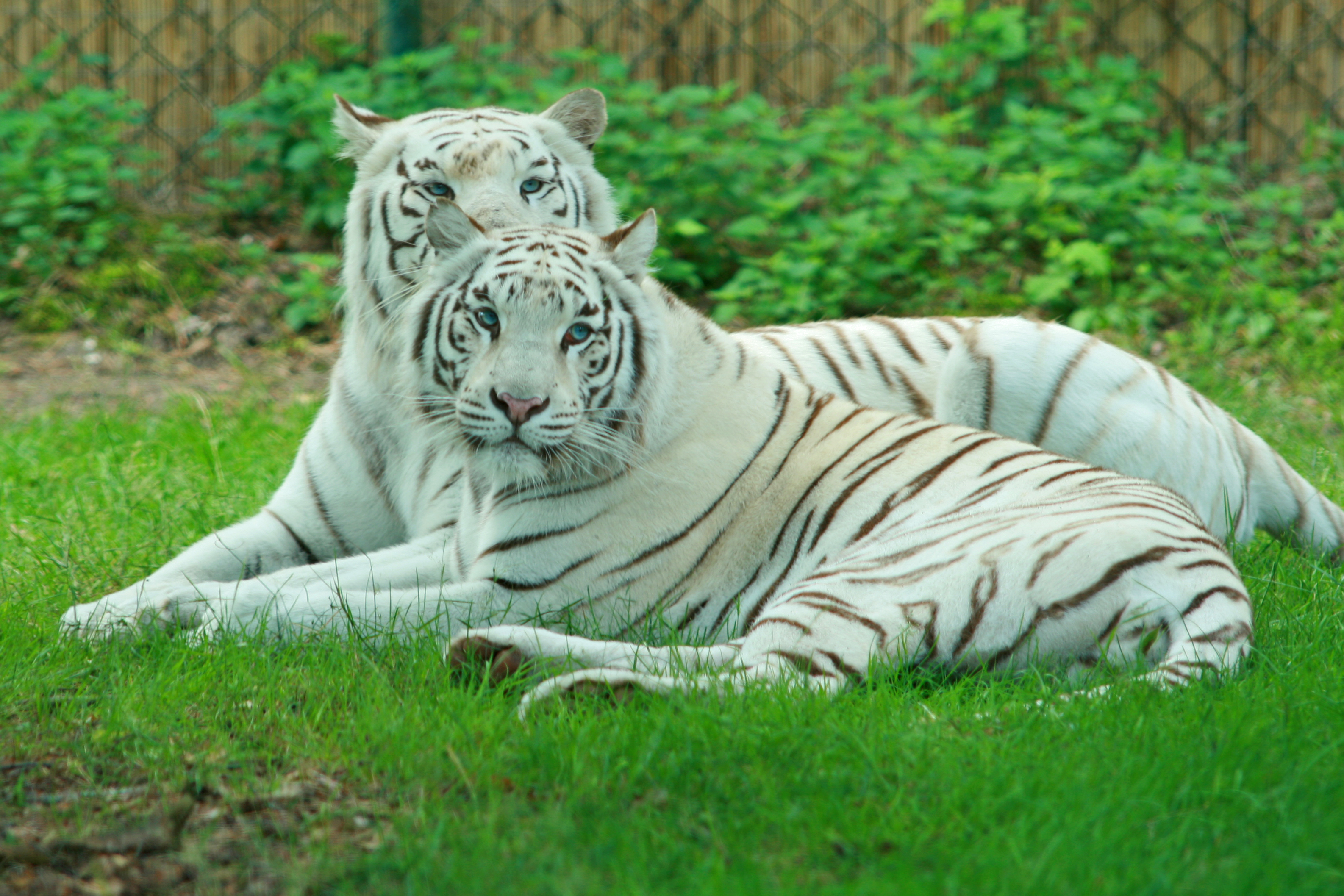 White tigers at Hollywood- und Safaripark Sukenbrock (Germany)